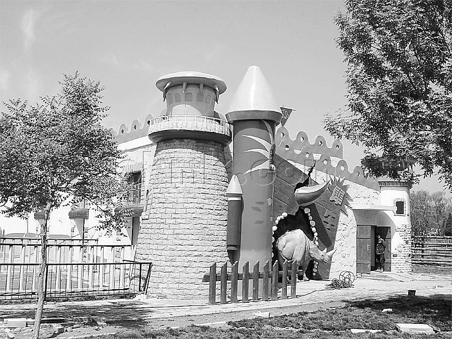 castle